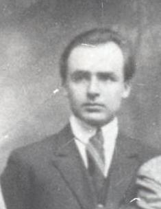 Yanko Yanev, Zlatorog, 1925-1927.